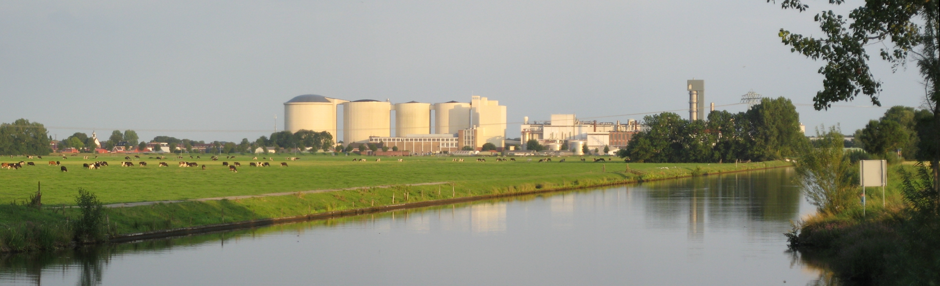 The sugar refinery in Hoogkerk in the Dutch city of Groningen.